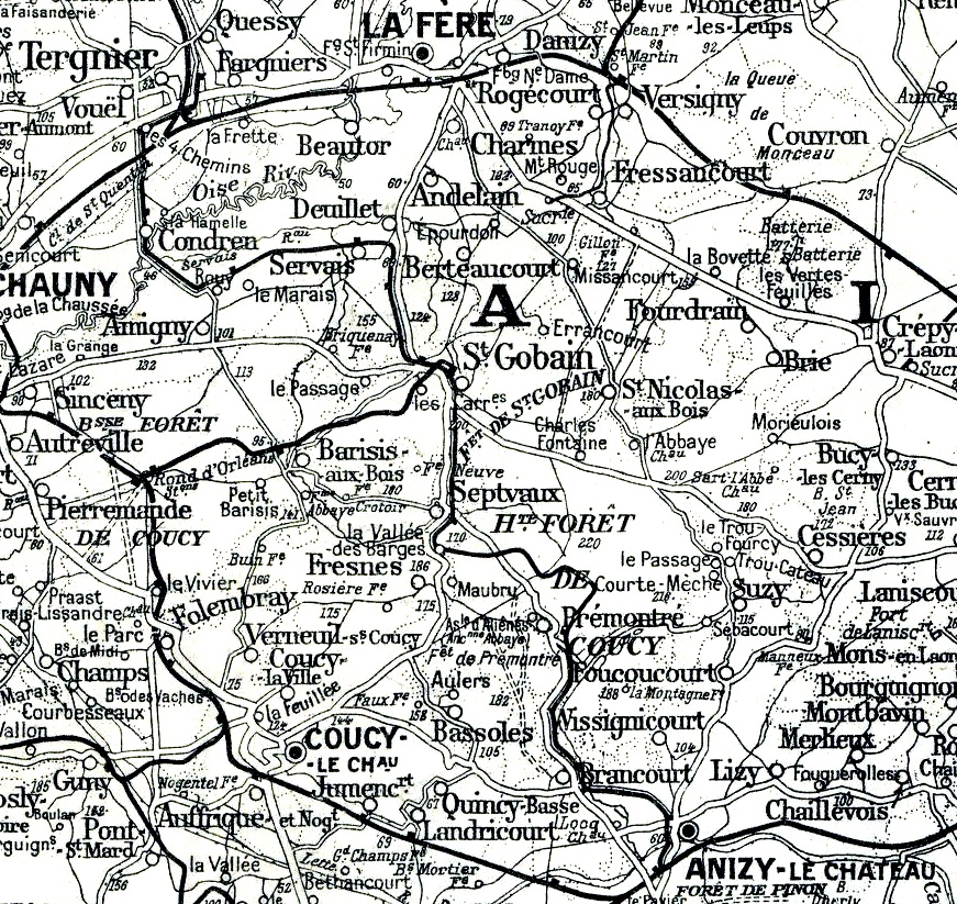 Aisne (France) map, near Tergnier and Saint Gobain (1916)